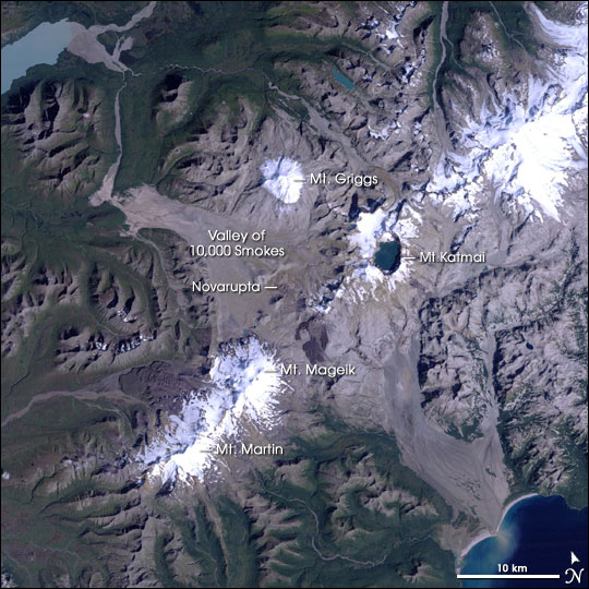 Satellite image of the Valley of Ten Thousand Smokes and surrounding area in Katmai National Park and Preserve, Alaska, USA.